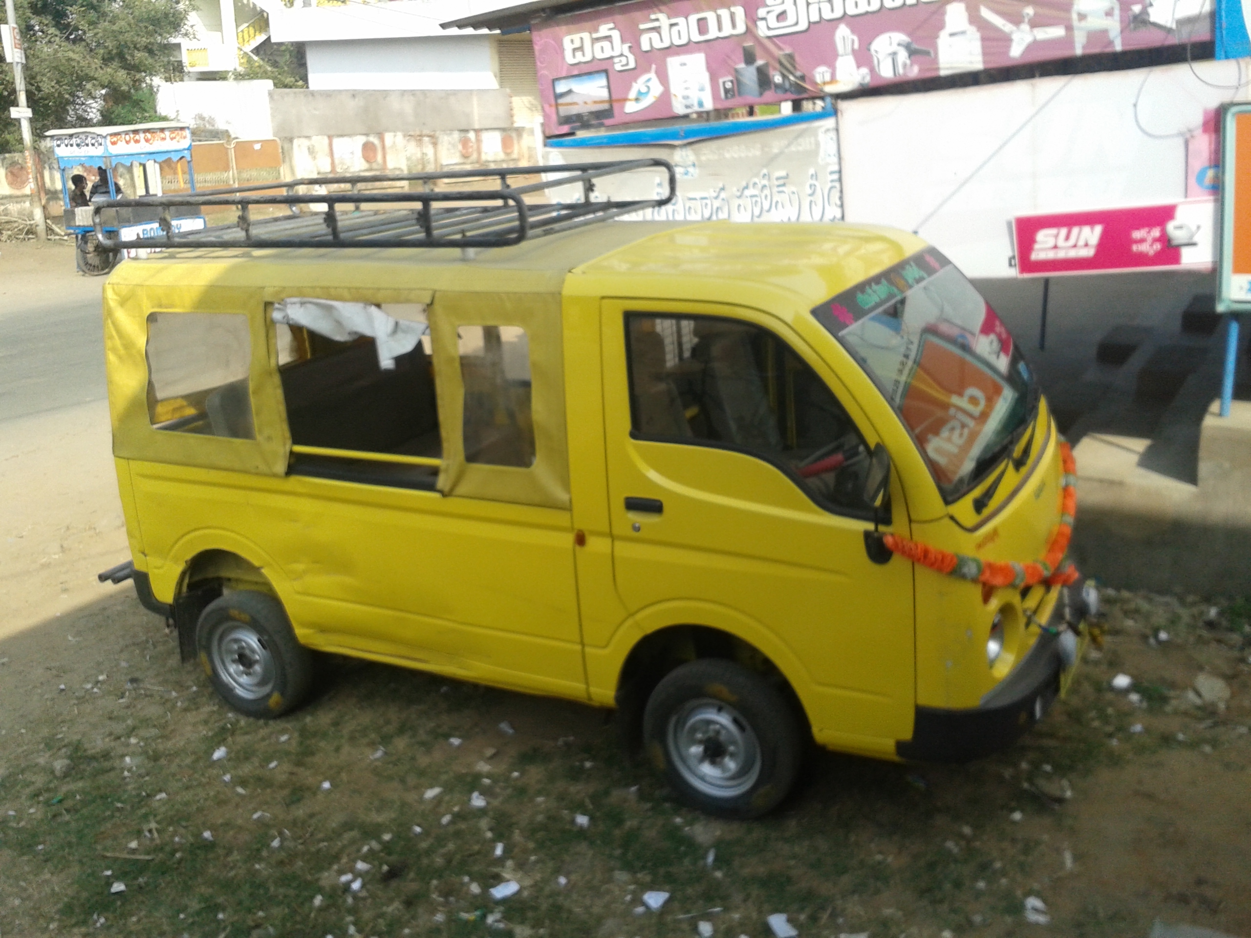 Yellow color Tata Magic (passenger version of the Tata Ace).